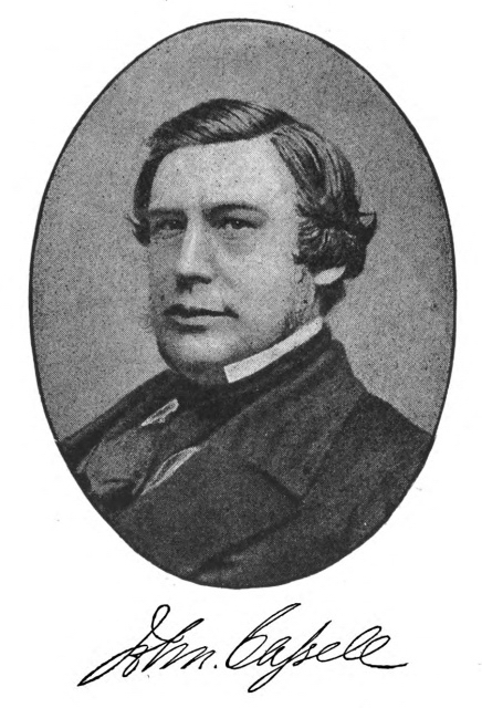 John Cassell - 02